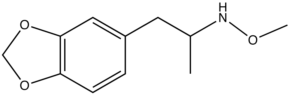 MDMEO